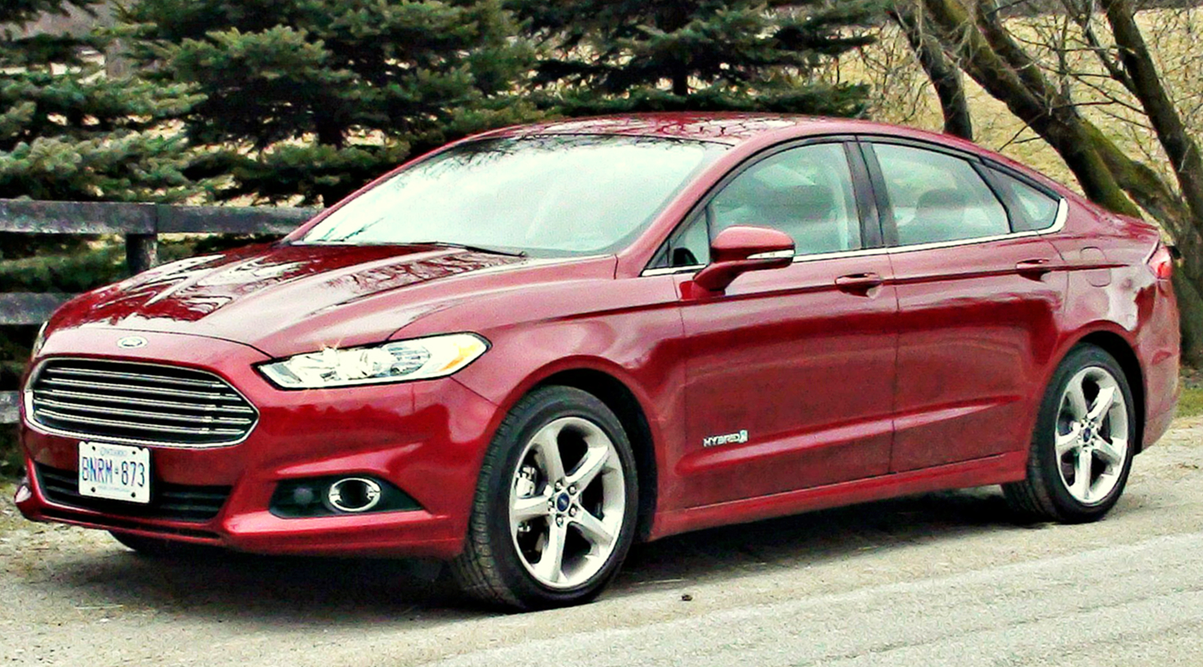 2013 Ford Fusion Hybrid